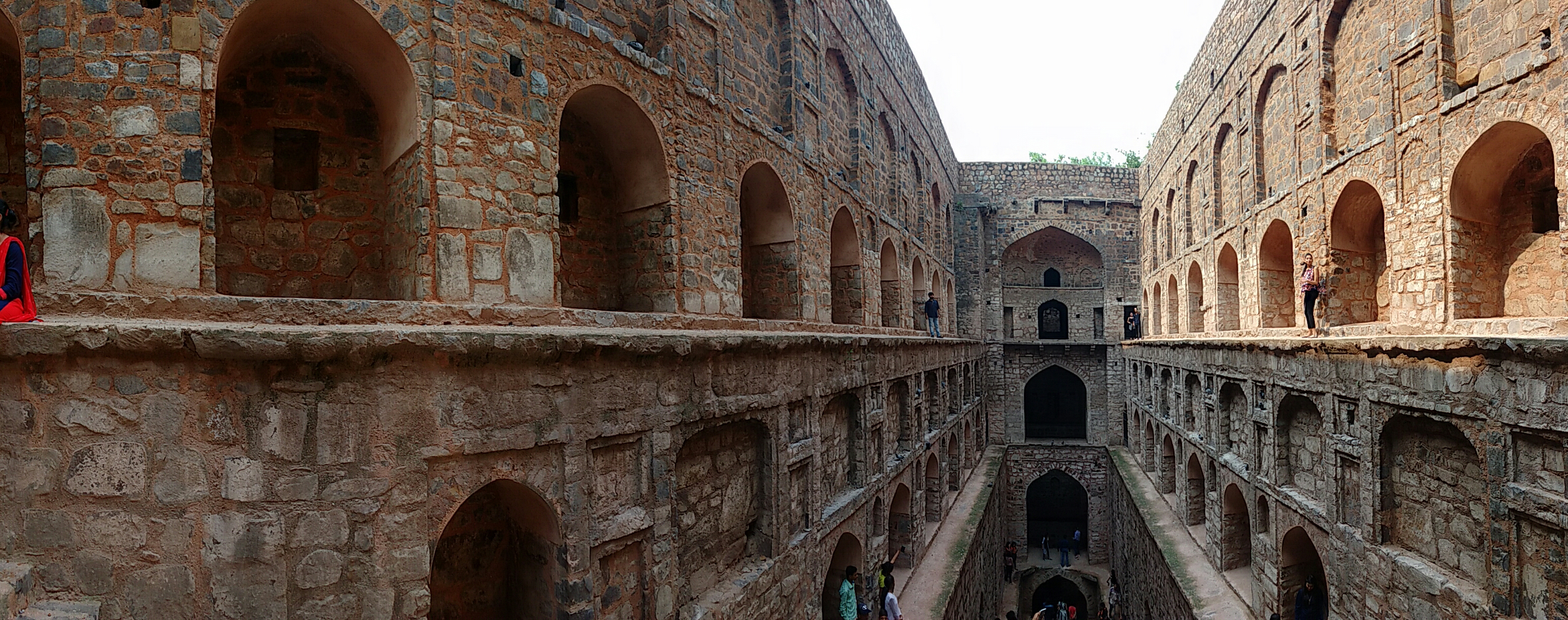 Panoramic shot of Agrasen Ki Baoli, with the ashes visible